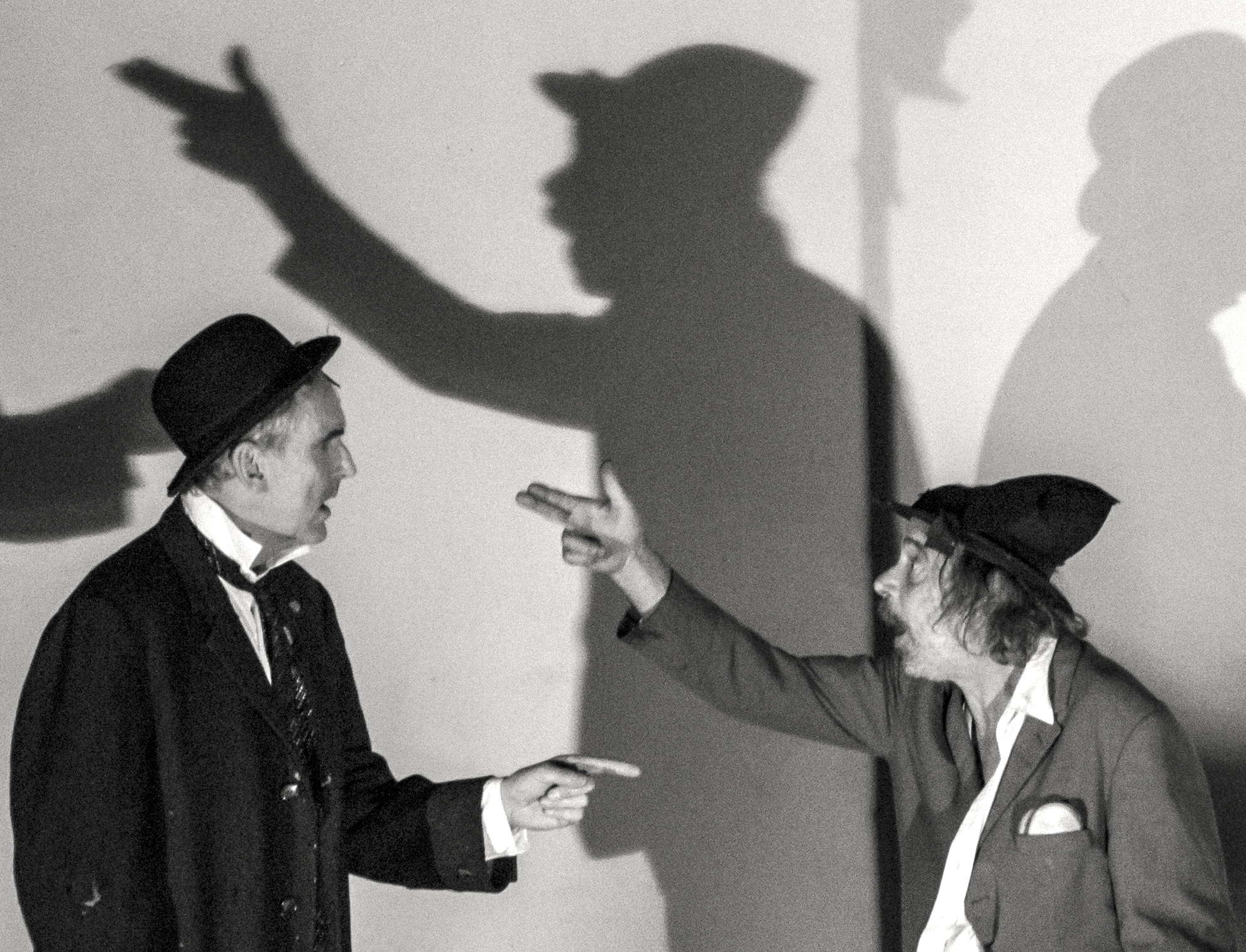 Gordon Wilson & Karel Cremers in 'Waiting for Godot'